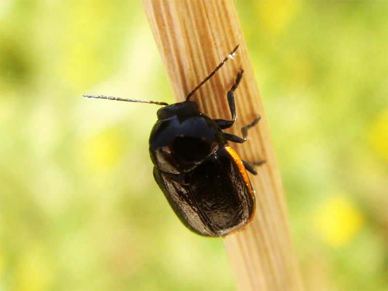 Cryptocephalus tetraspilus in Ansião, Leiria, Portugal